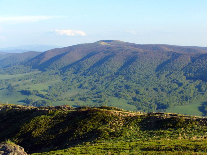 View from Połonina Wetlińska to Wielka Rawka, Mała Rawka, Dział. Western Bieszczady, Poland.